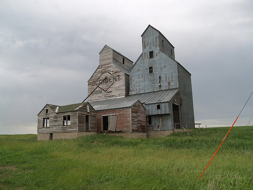 North Almont, North Dakota. From .